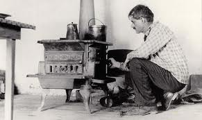 E.A. Burbank, Jo Mora, 1904 The Harvard-Diggins Library, Harvard, Illinois Other information No.